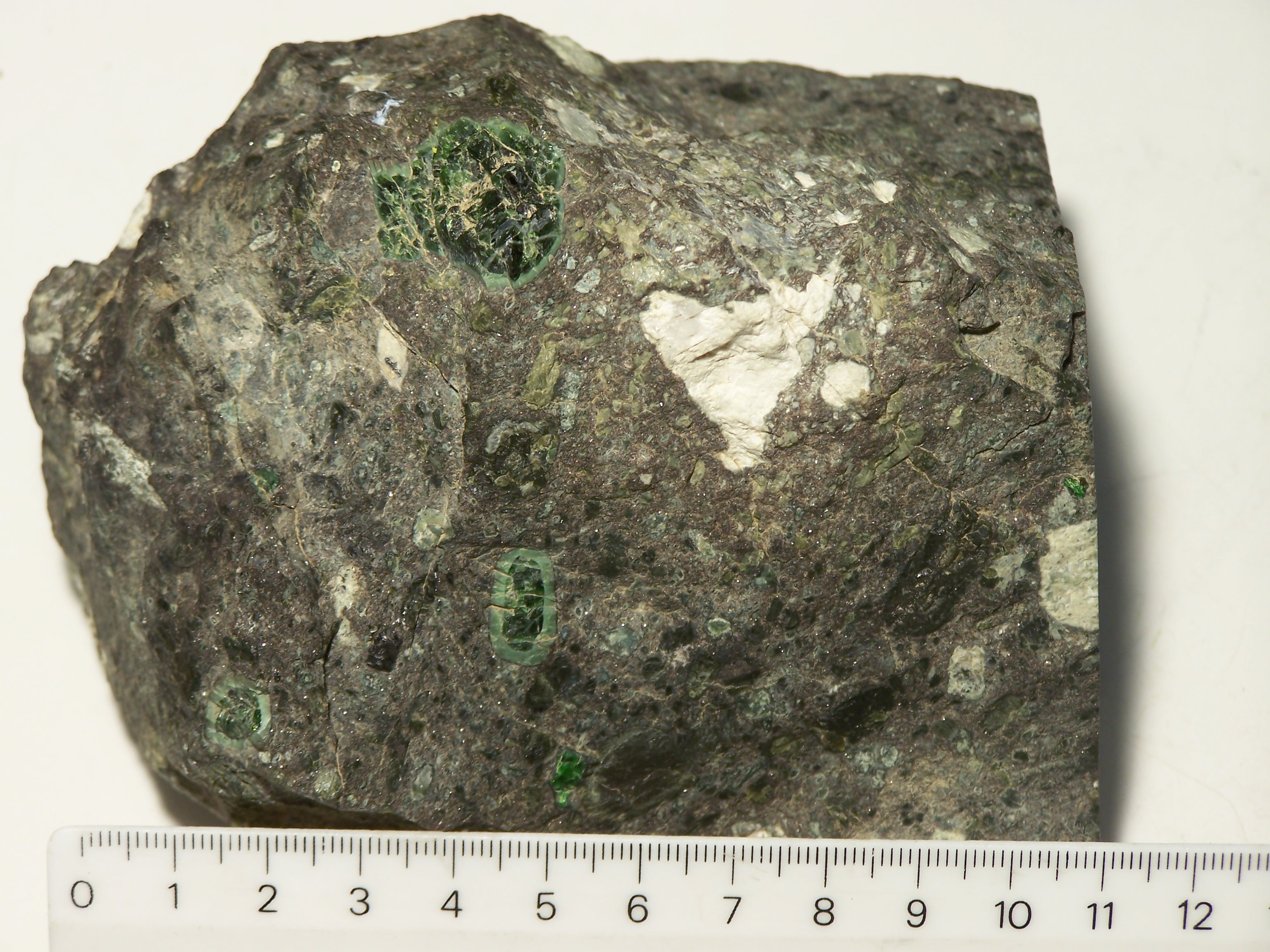 Picture of a diamond-bearing kimberlite rock, from a mine somewhere in the US. (Diamonds are not visible)